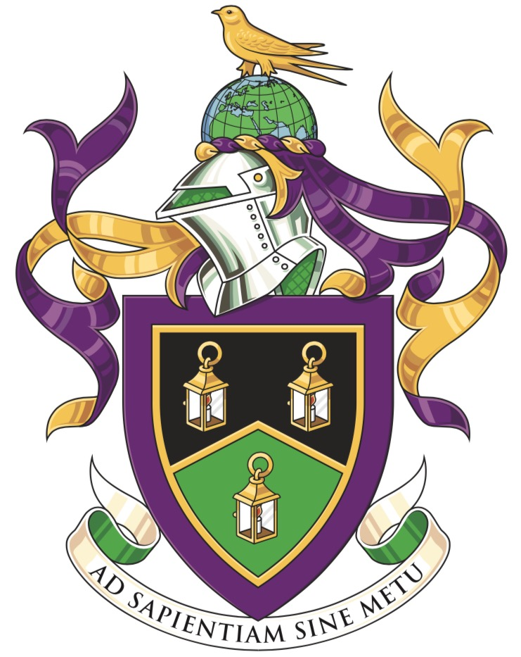 SCHS Full Achievement